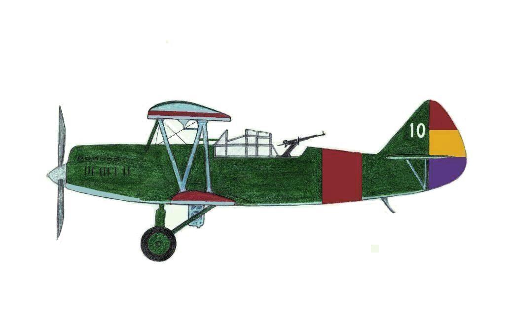 Pencil drawing of a Polikarpov R-Z Natacha of the Spanish Republican Air Force